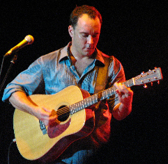 Photo of Dave Matthews